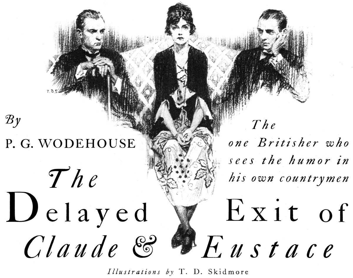 Cosmopolitan illustration by T. D. Skidmore of the P. G. Wodehouse short story "The Delayed Exit of Claude and Eustace" featuring Jeeves